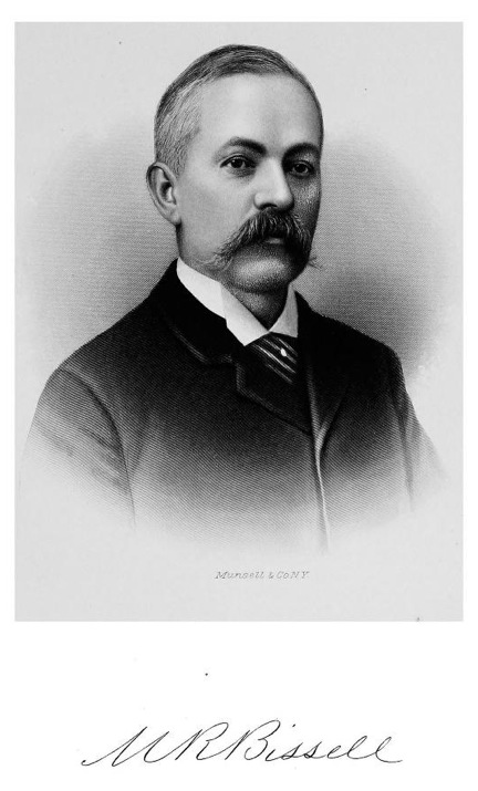 Inventor of the carpet sweeper.